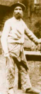 Karl Kořínek (* 19. November 1858 in Czaslau, Bohemia, Austrian Empire; † 28. June 1908 in Vienna). Socialist and union leader in Austria-Hungary.